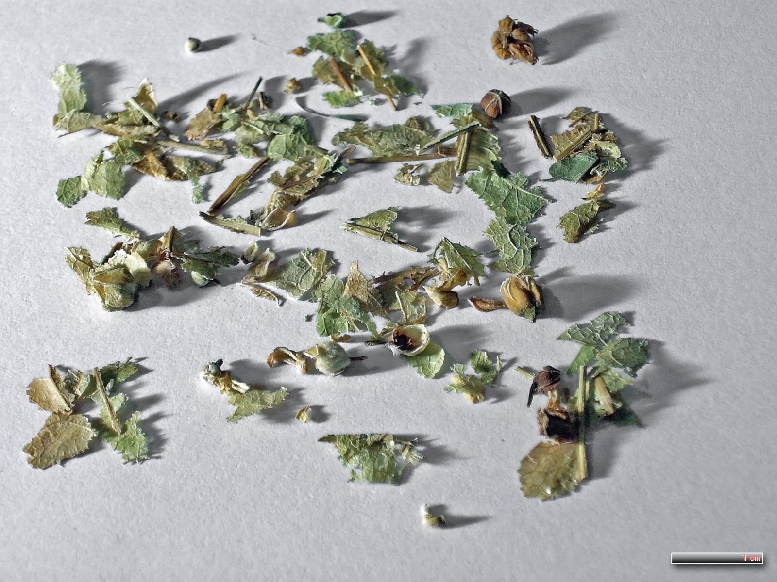 dried Tilia cordata (Small-leaved Lime, occasionally Small-leaved Linden); Flower